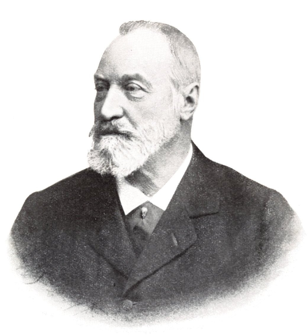 Jenő Zichy (1837-1906), Hungarian politician, Asia explorer